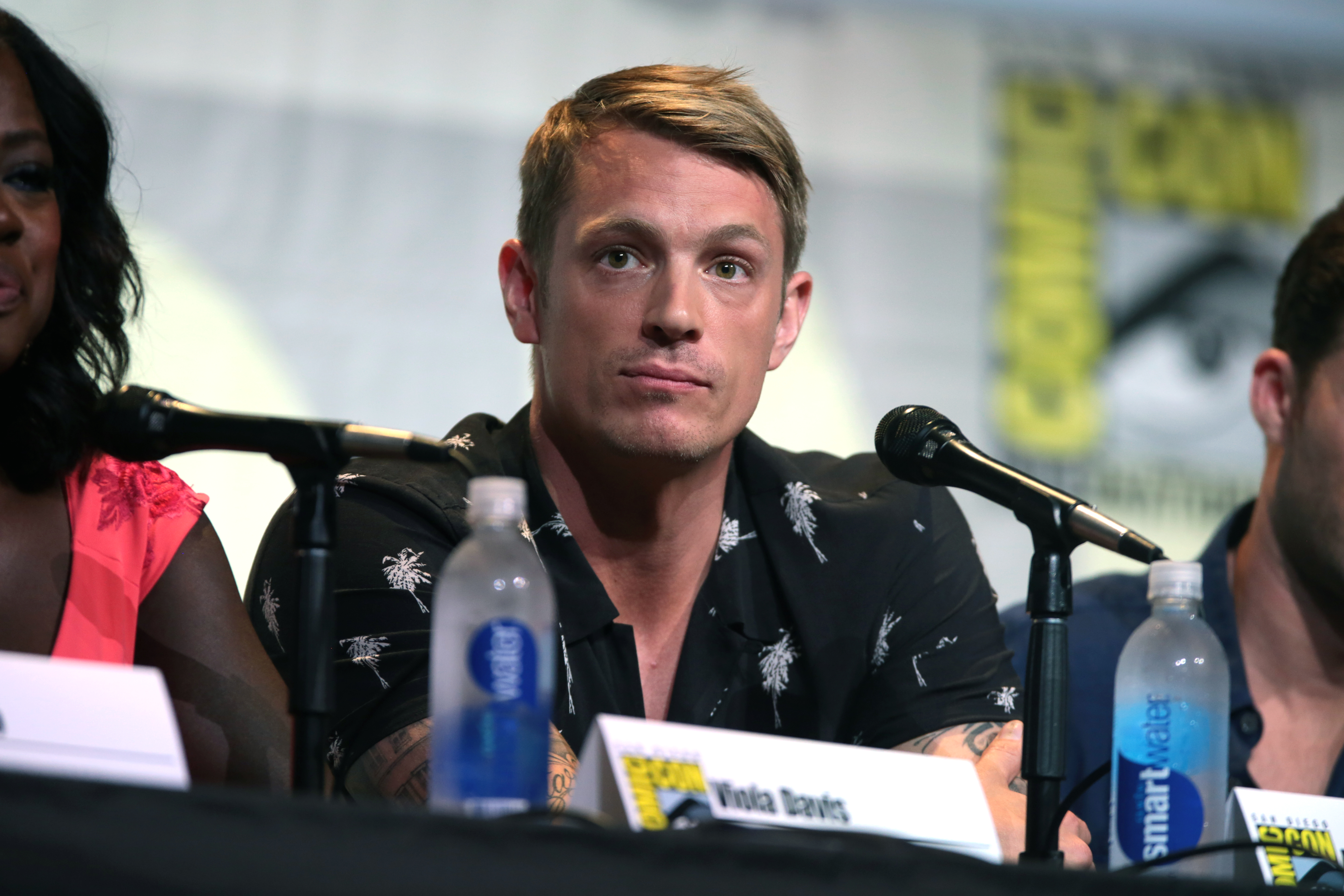 Joel Kinnaman speaking at the 2016 San Diego Comic Con International, for "Suicide Squad", at the San Diego Convention Center in San Diego, California.